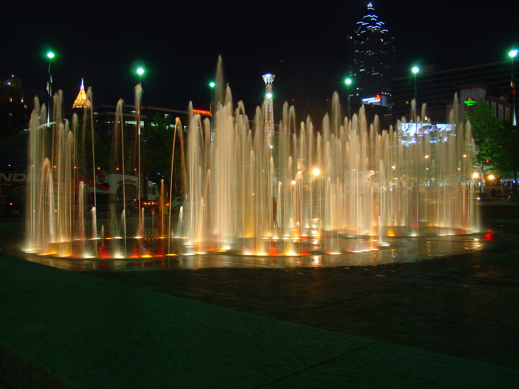 The Centennial Olympic Park Fountains at night. I took this photo after an Atlanta Thrashers game in 2005.